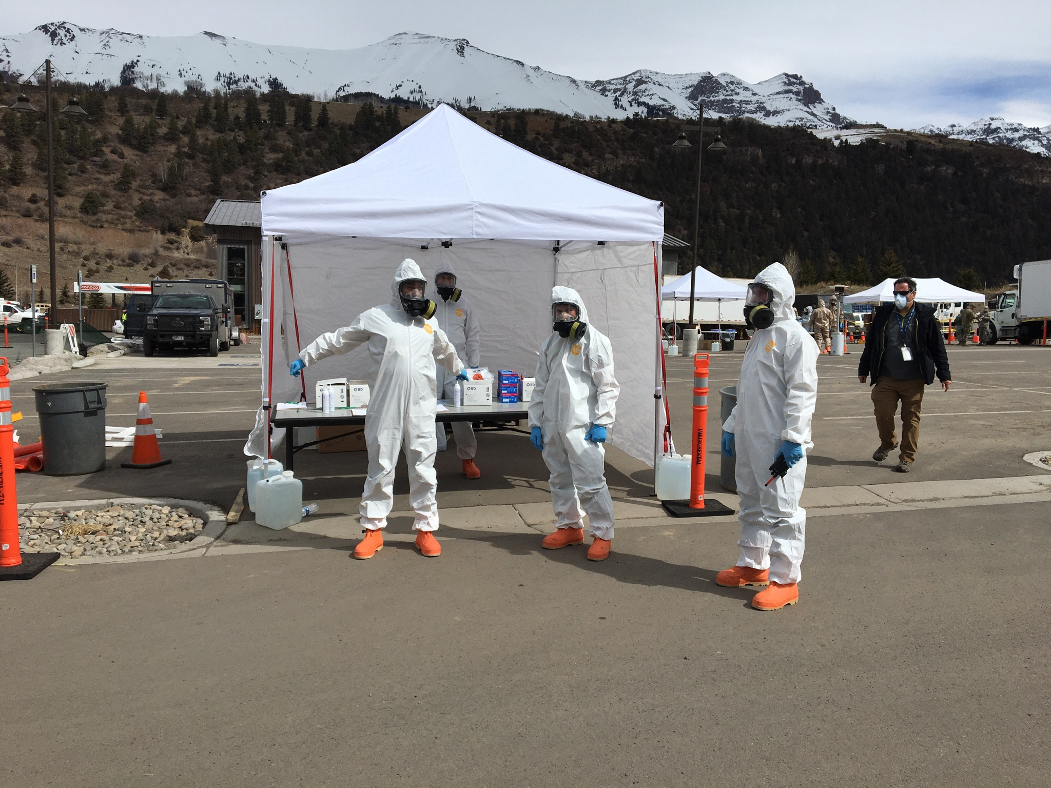 Members of the Colorado National Guard assist San Miguel County and the Colorado Department of Public Health & Environment with a COVID-19 drive-up testing station in Telluride, Colorado, March 17, 2020. The two specialized teams, 8th Weapons of Mass Destruction-Civil Support Team and Chemical, Biological, Radiological, Nuclear and high-yield Explosive Enhanced Response Force Package are Colorado’s resident trained and equipped experts in biological hazards. Colorado’s 8th WMD-CST and CERFP are available to the governor and Federal Emergency Management Agency Region Eight.